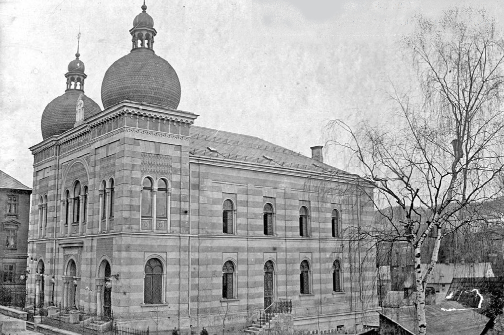 Synagogue of Jablonec nad Nisou (Gablonz an der Neiße) in the Sudeten, built in 1892 and destroyed by the nazis during the Kristal Nacht. - General view